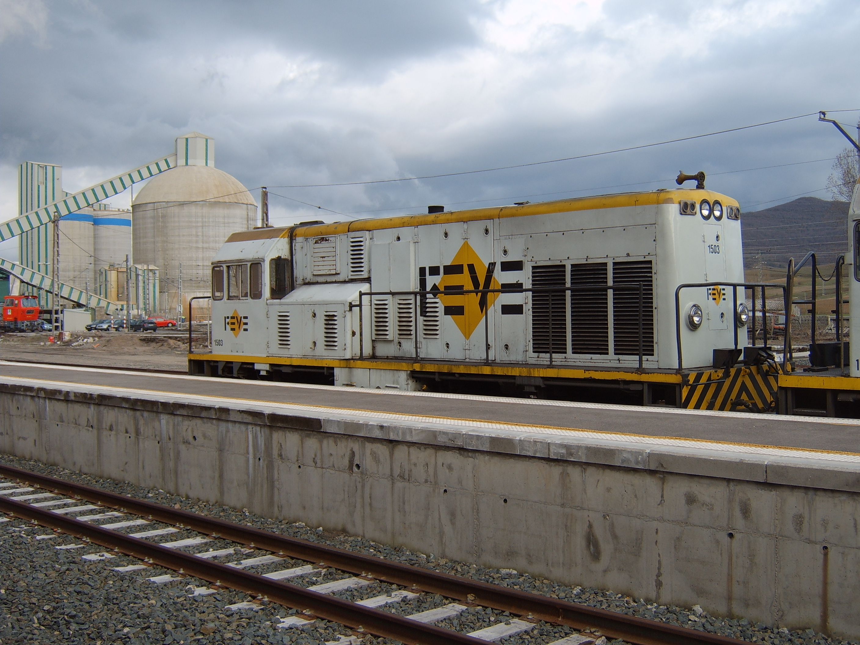 Taken during a few minutes station dwell time, on the 7 hour run from Leon through to Bilbao there was very little in the railway activity to be seen. At Mataporquera (Valdeolea) class 1500 no. 1503 is seen stabled between freight duties on 22 March 2006.